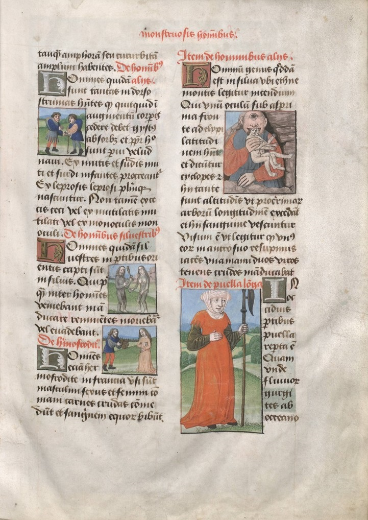 15th-century illuminated manuscript of Thomas of Cantimpré's De rerum natura, a 13th-century encyclopaedia on nature and mankind. Sheet showing 'monstruous human beings' such as cyclops, wild people and a giant.